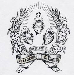 Emblem of the clerical congregation Filii Sacrae Familiae (Sons of the Holy Family), founded in 1864; from a print of 19th cent.